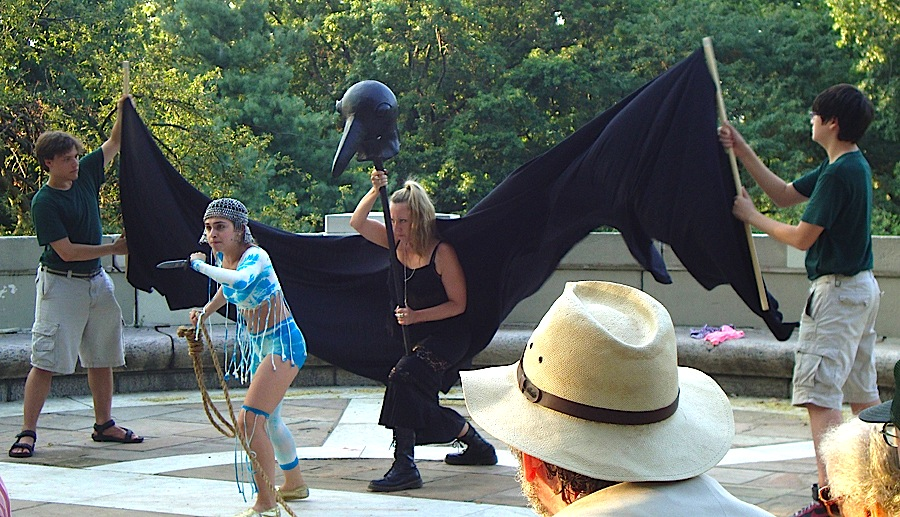 The Play